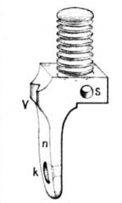 one piece breech plug